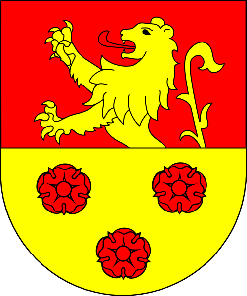 Coat of arms (shield only) of Zsigmond Thurzó, bishop of Nitra, Slovakia (1503 - 1504), bishop of Transylvania, Romania (1504 - 1508), bishop of Oradea Mare, Romania (1508 - 1512). Identical with Thurzó family arms.